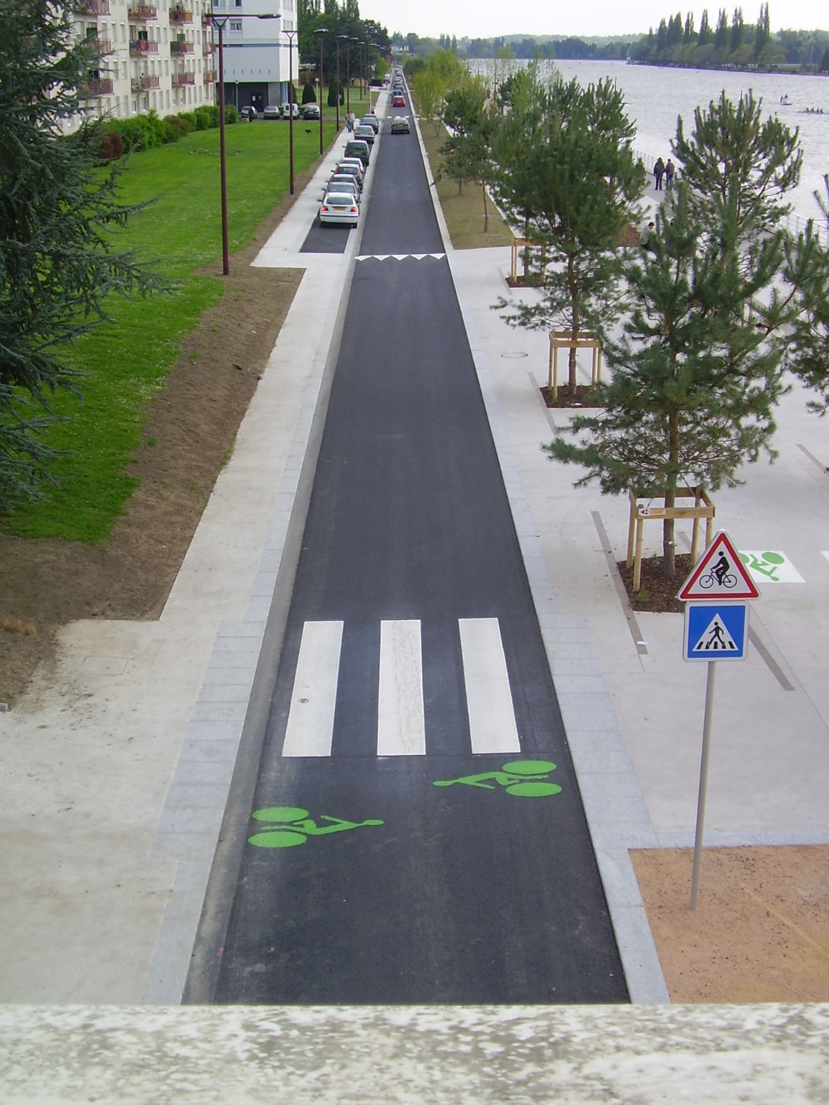 Boulevard Franchet d'Esperey, in Vichy.